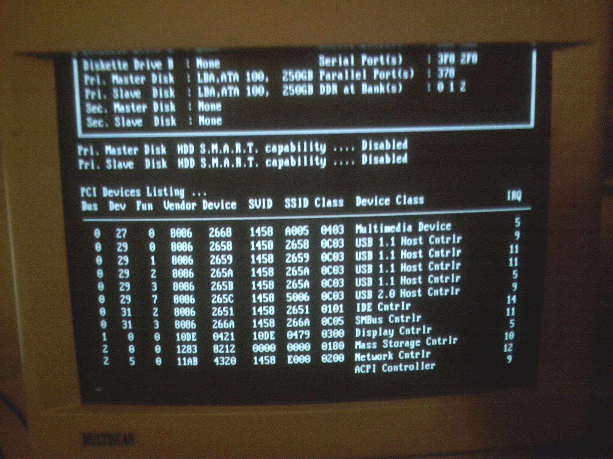 A photograph of a PC's POST screen.